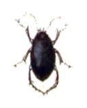 Hygrotus impressopunctatus, from Calwer's Käferbuch, Table 8, Picture 16. Taxonomy was updated to 2008, using mostly the sites Fauna Europaea and BioLib. Please contact Sarefo if the determination is wrong!